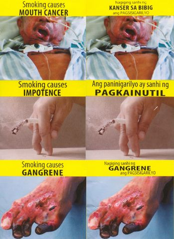 Example of Philippine tobacco packaging graphic warning messages in English (left) and Filipino (right).